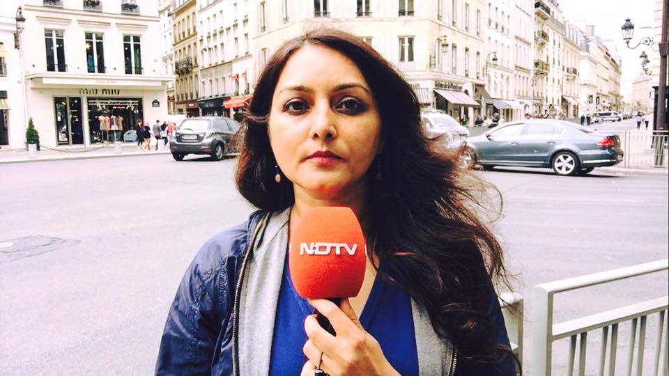 Noopur Tiwari at the Pairs Climate Summit